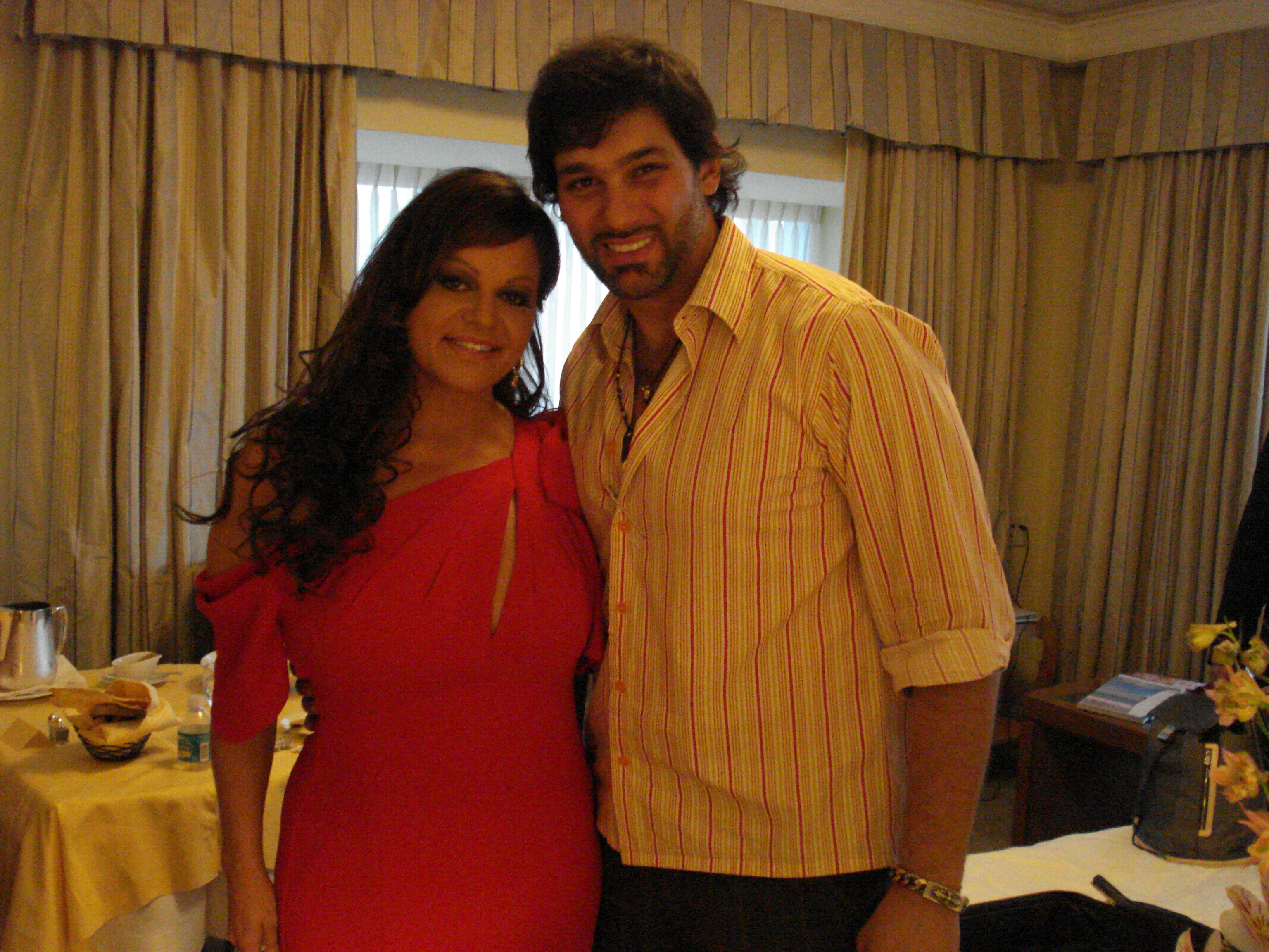 American singer-songwriter, actress, television producer, and entrepreneur of Mexican heritage Jenny Rivera and Celebrity Hair stylist Leonardo Rocco in Miami, Florida, United States of America.